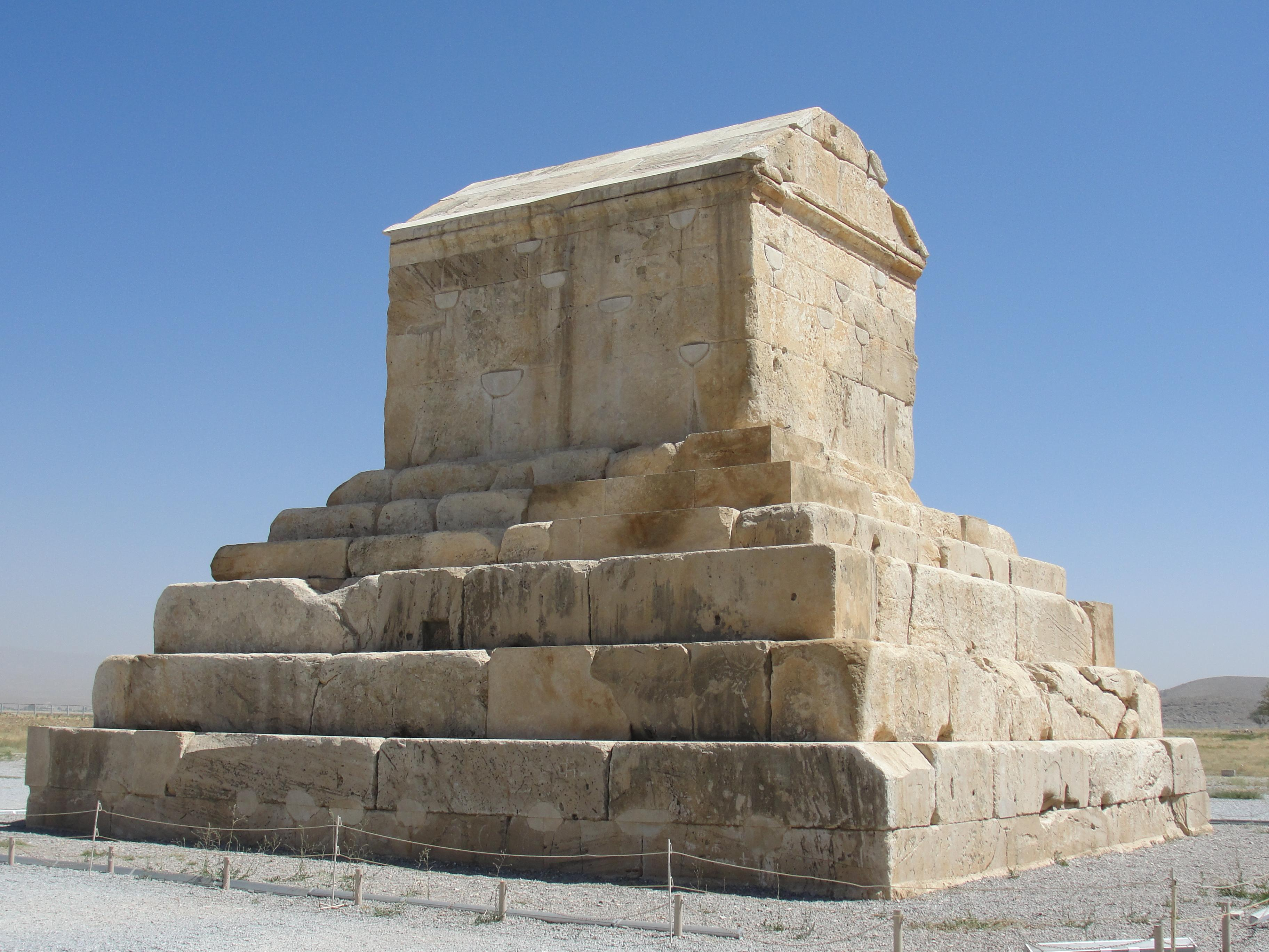 The tomb of Cyrus the Great